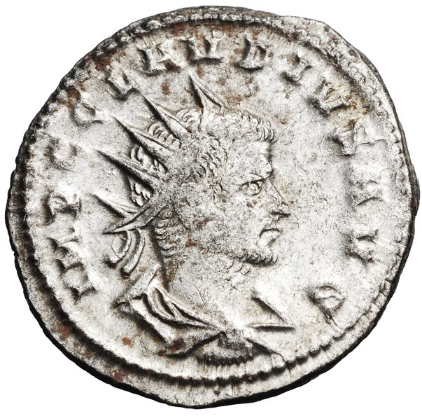 Antoninianus featuring emperor Claudius II From Rasiel's Roman Coin Collection